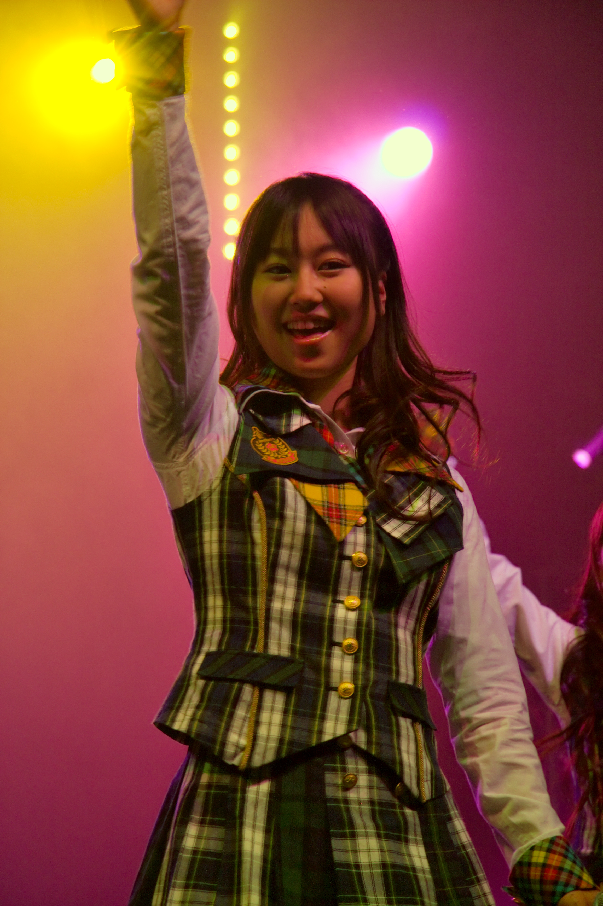 AKB48 live at Japan Expo 2009 (Paris, France).